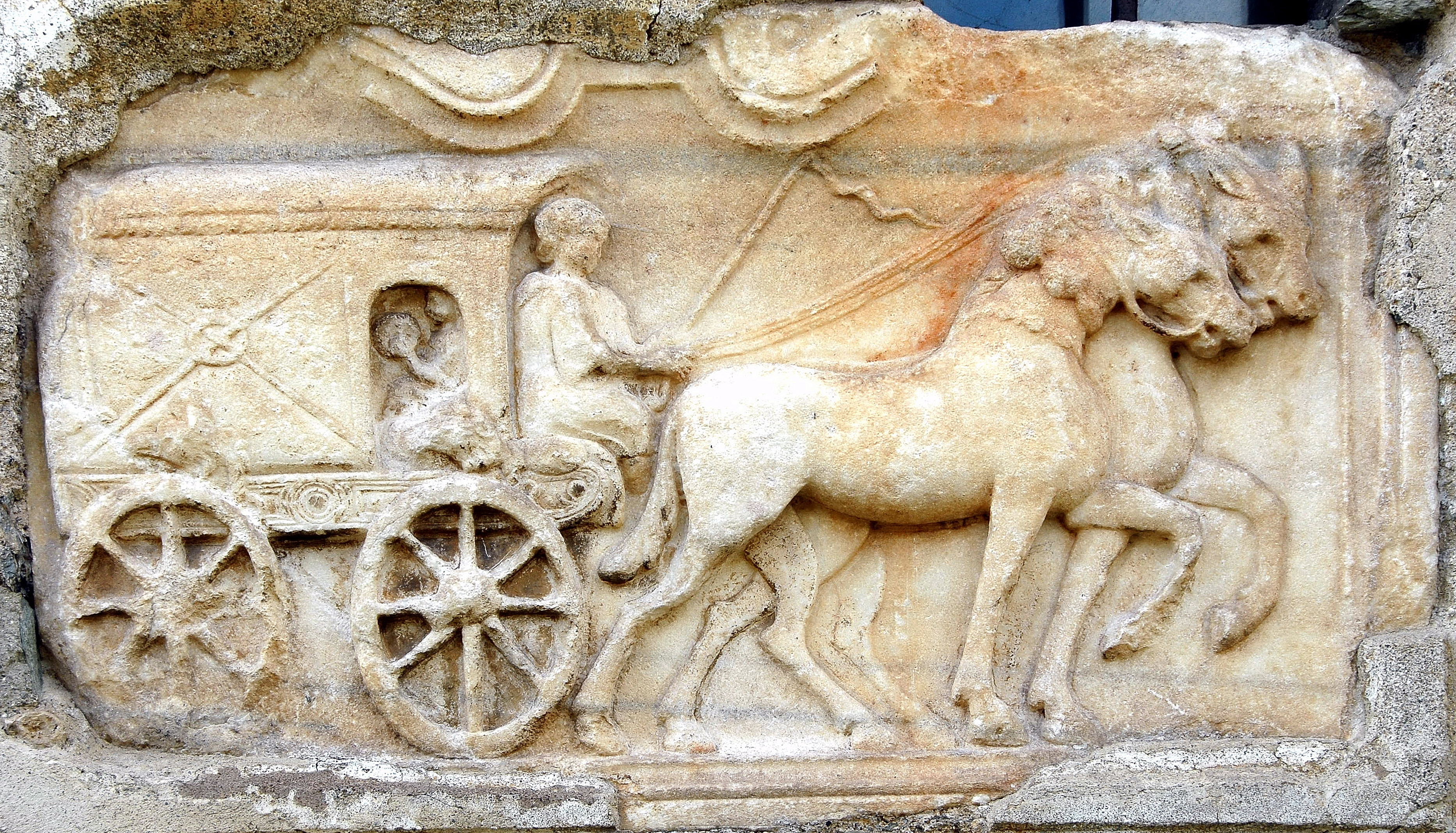 Carriage to kingdom come (CSIR II/4, 399), taking a soul to the other world, Roman stone relief of Virunum II cemetery of the Zollfeld near Maria Saal, exposed on the south outside wall of the cathedral at Maria Saal, market town Maria Saal, district Klagenfurt Land, Carinthia, Austria, EU